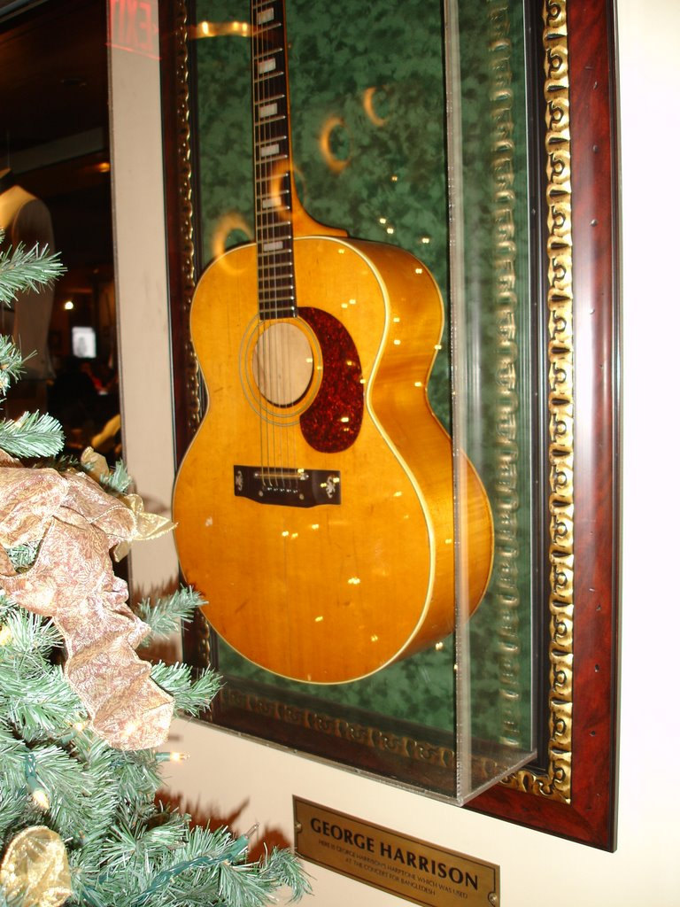 Harptone L-6 George Harrison's Harptone guitar which was used at the Concert for Bangladesh.